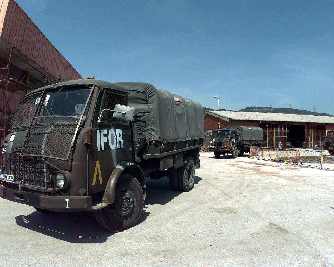 Two Hellenic (Greek) Army, IFOR marked, Steyr 680 M (4x4) 4500 kg Trucks prepare to leave the Organization for Security and Cooperation in Europe (OSCE) entry control point carrying polling kits for shipment throughout Bosnia-Herzegovina for the upcoming elections taking place during Operation Joint Endeavor. Operation Joint Endeavor is a peacekeeping effort by a multinational Implementation Force (IFOR), comprised of NATO and non-NATO military forces, deployed to Bosnia in support of the Dayton Peace Accords. (Released to Public)